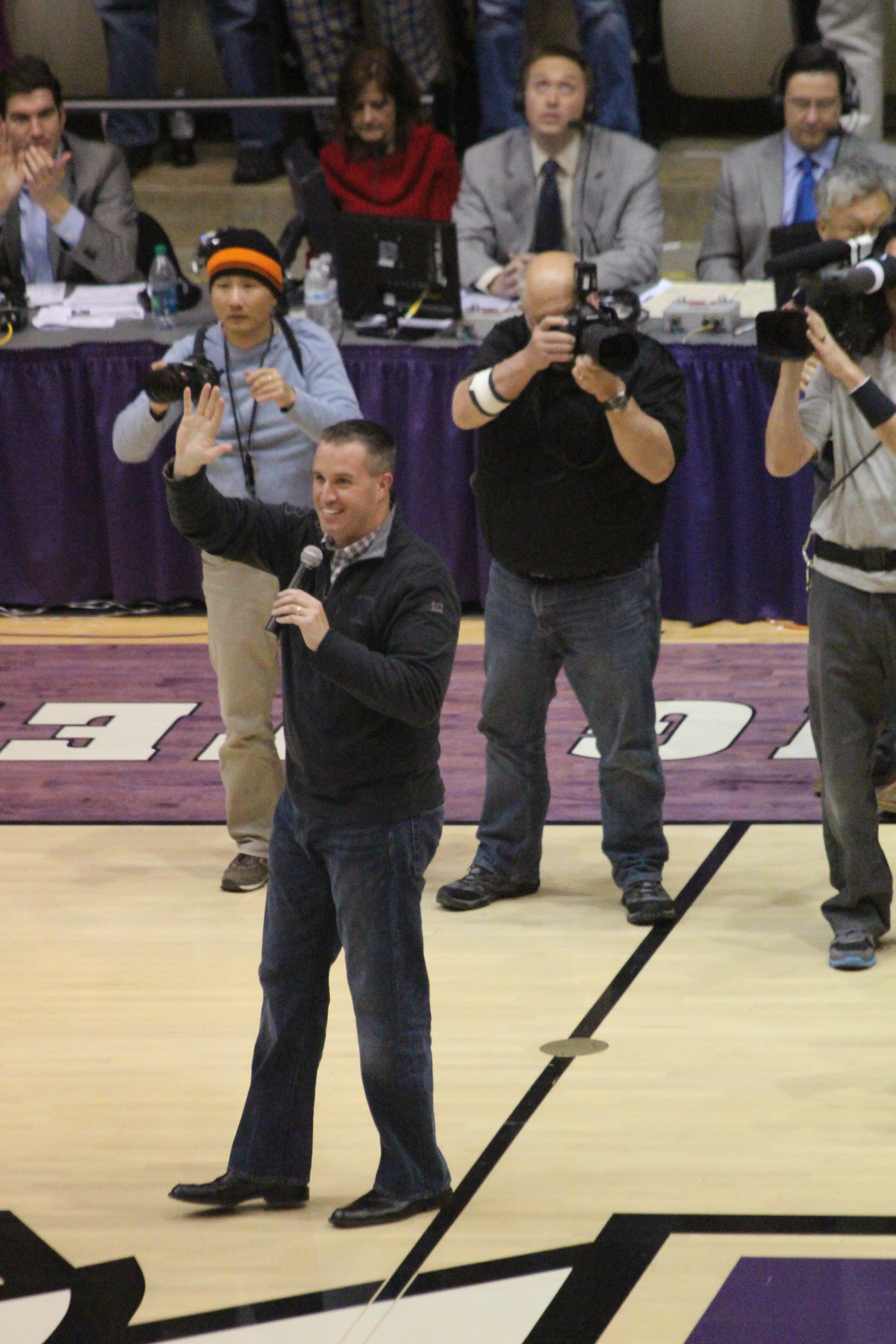 Pat Fitzgerald on January 3, 2013 at Welsh-Ryan Arena